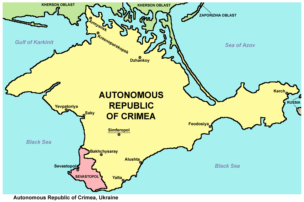 Map of the Autonomous Republic of Crimea and of Sevastopol, Ukraine.